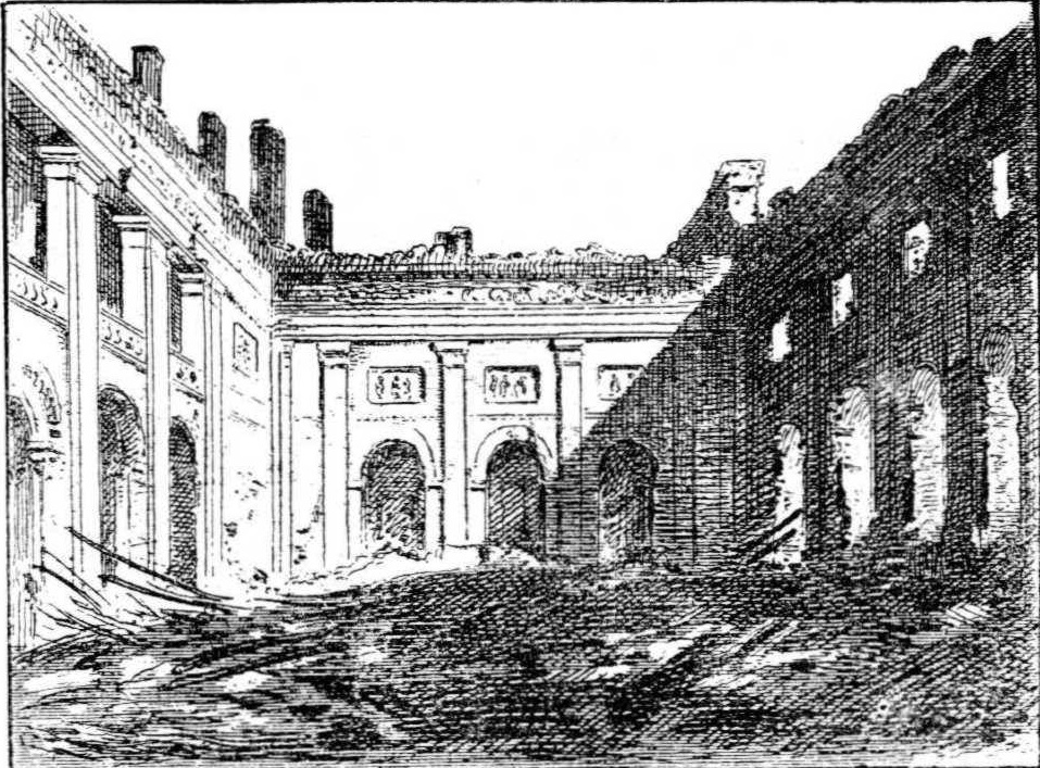 The damages caused by the bombardment of Pest by the imperials: the House of Representatives